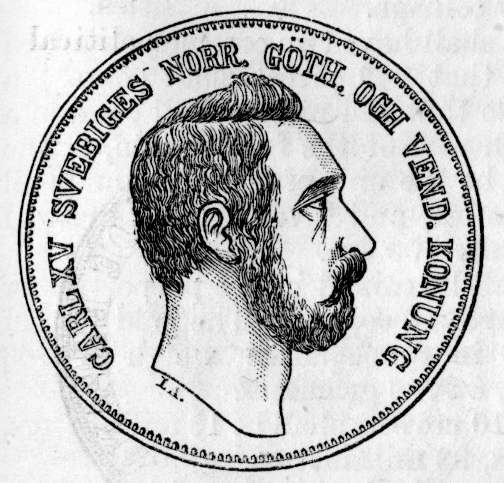 A Swedish silver four riksdaler piece of 1870, with the head of Carl XV. "Weight 1.092, fineness 750. Value 4s. 7½d." Obverse shown